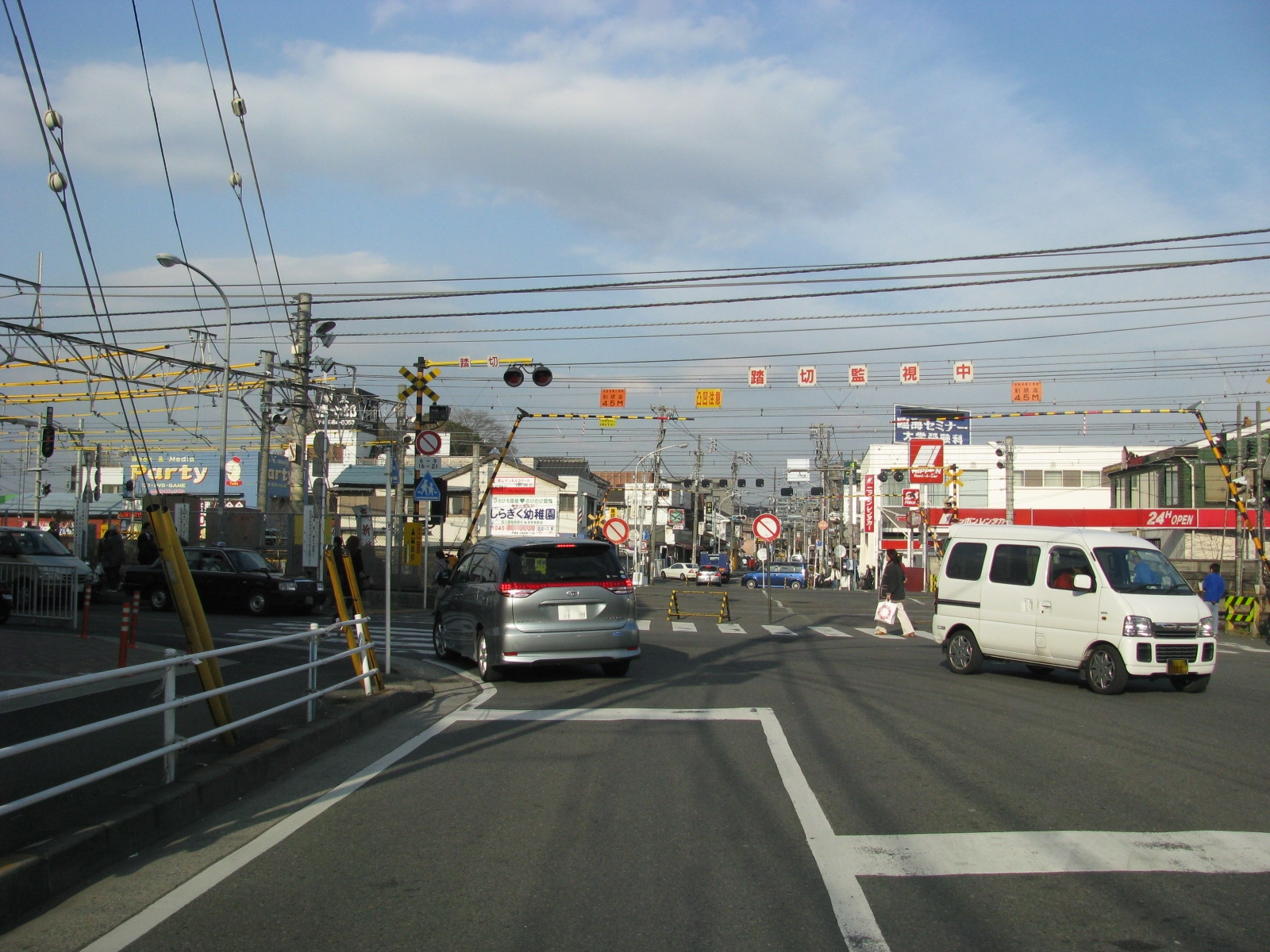 Totsuka level crossing in Yokohama, Kanagawa, Japan.